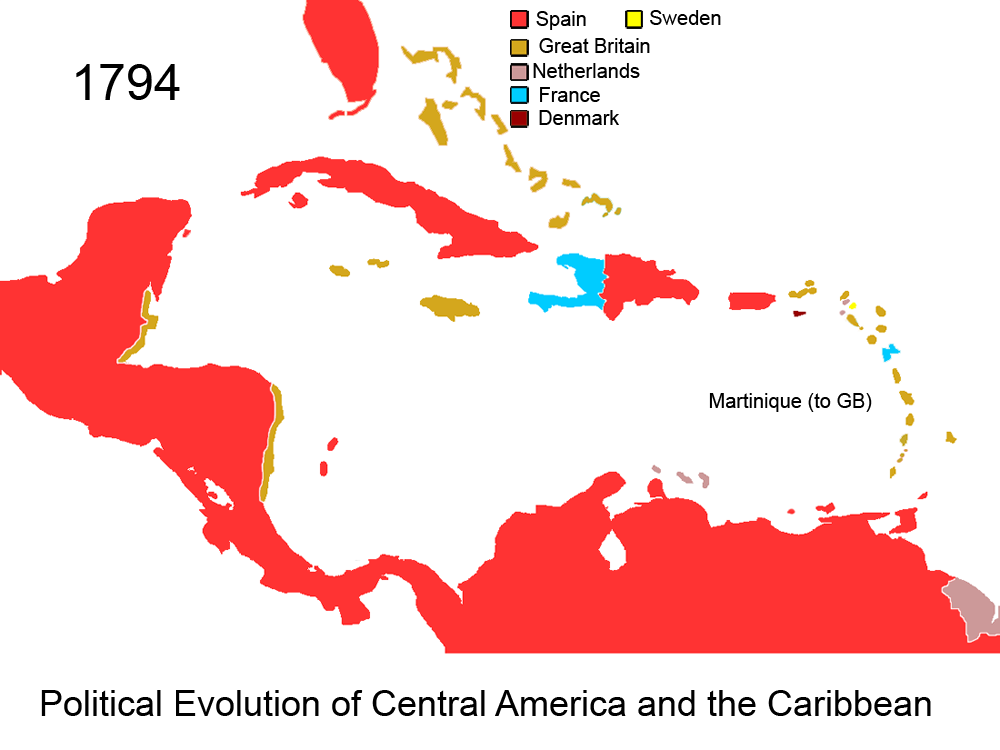 Political Evolution of Central America and the Caribbean